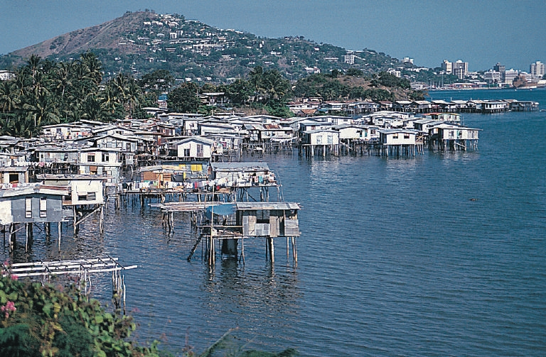 A well-established area of poor housing at Hanuabada, a coastal suburb of Port Moresby.